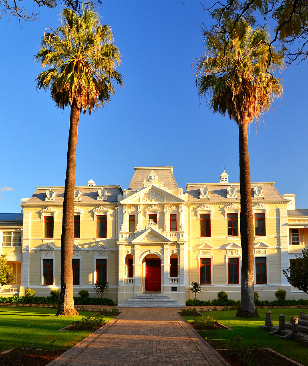 The original Drostdy was the -First public building in Stellenbosoh and was a U-shaped building which was completely rebuilt, in 1763. It was then given an H-shape and the front of a traditional Cape Dutch farmhouse.It served as Drostdy until 1827.